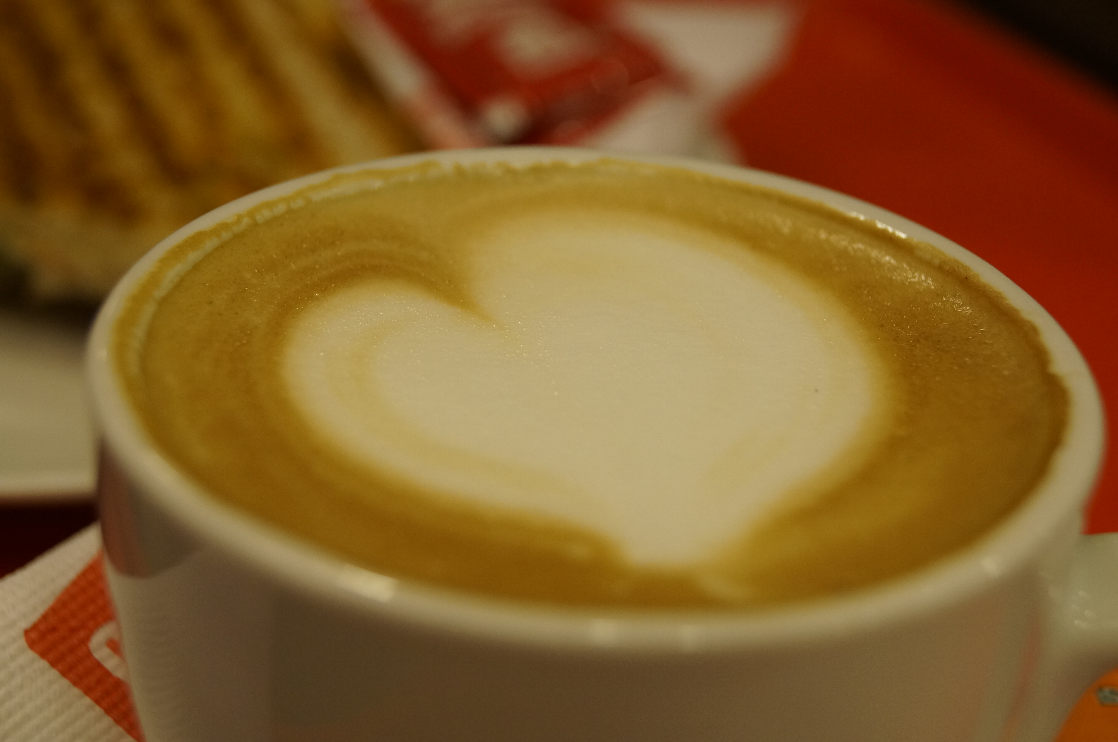 Cafe Latte At CCD